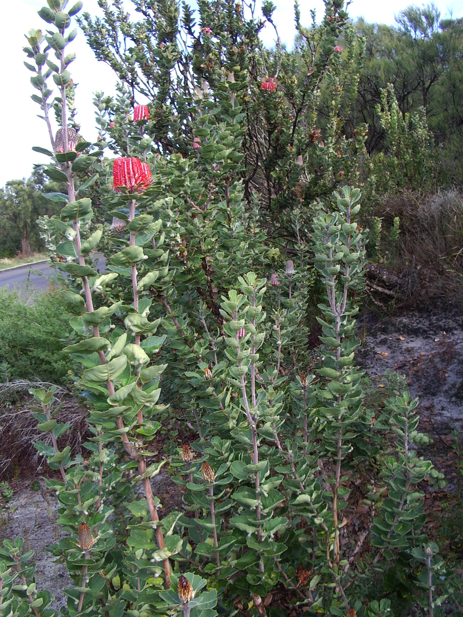 Banksia coccinea